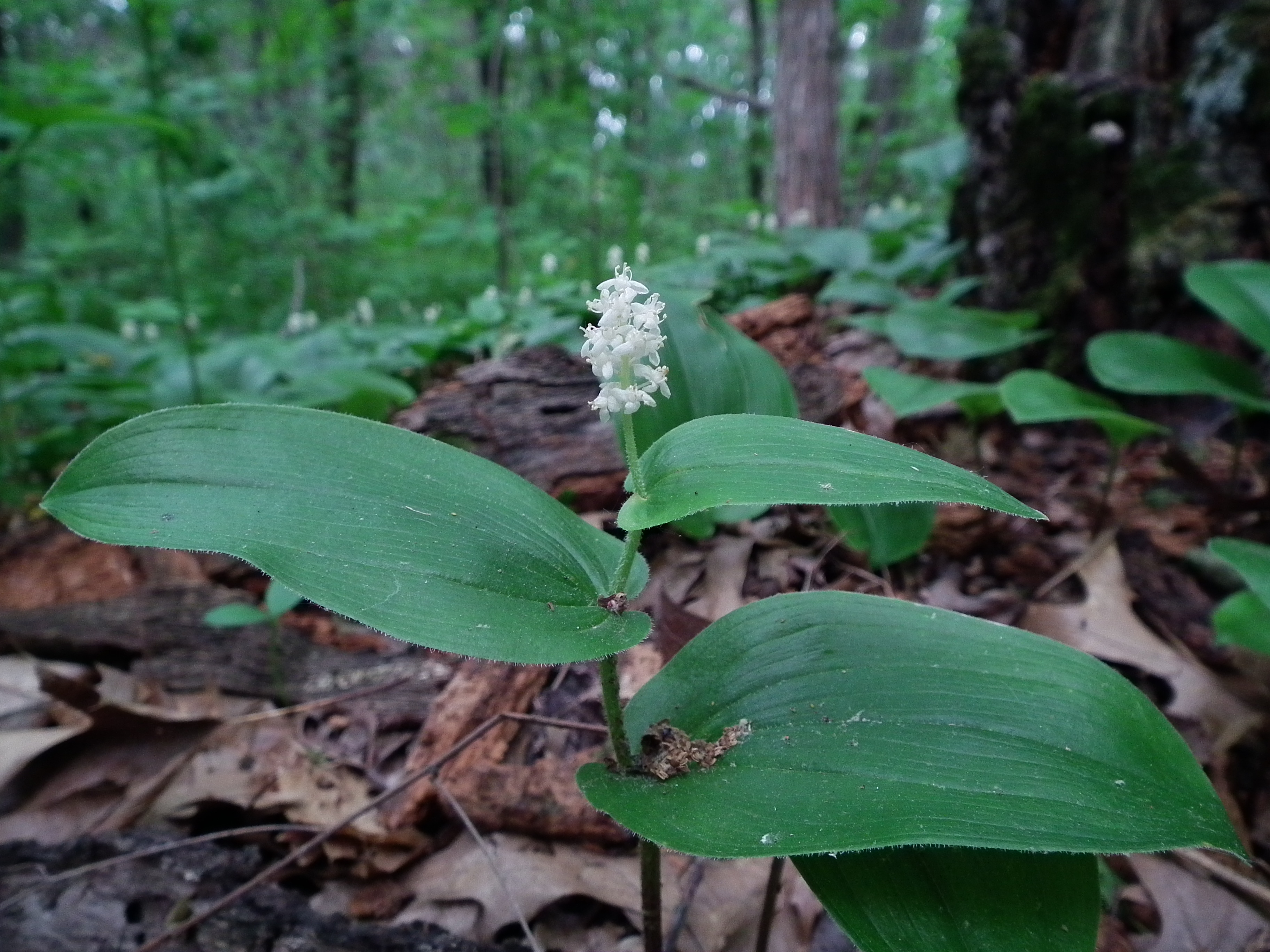 False Lily-of-the-valley (Maianthemum canadense) in the Rum River Nature Area, Anoka, Minnesota, USA.